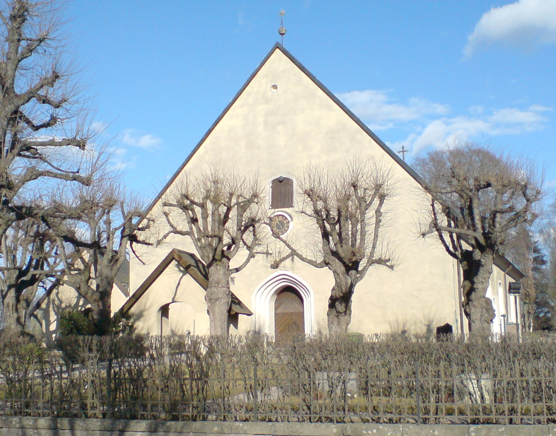 The church in Danderyd, 10 km north of Stockholm, Sweden